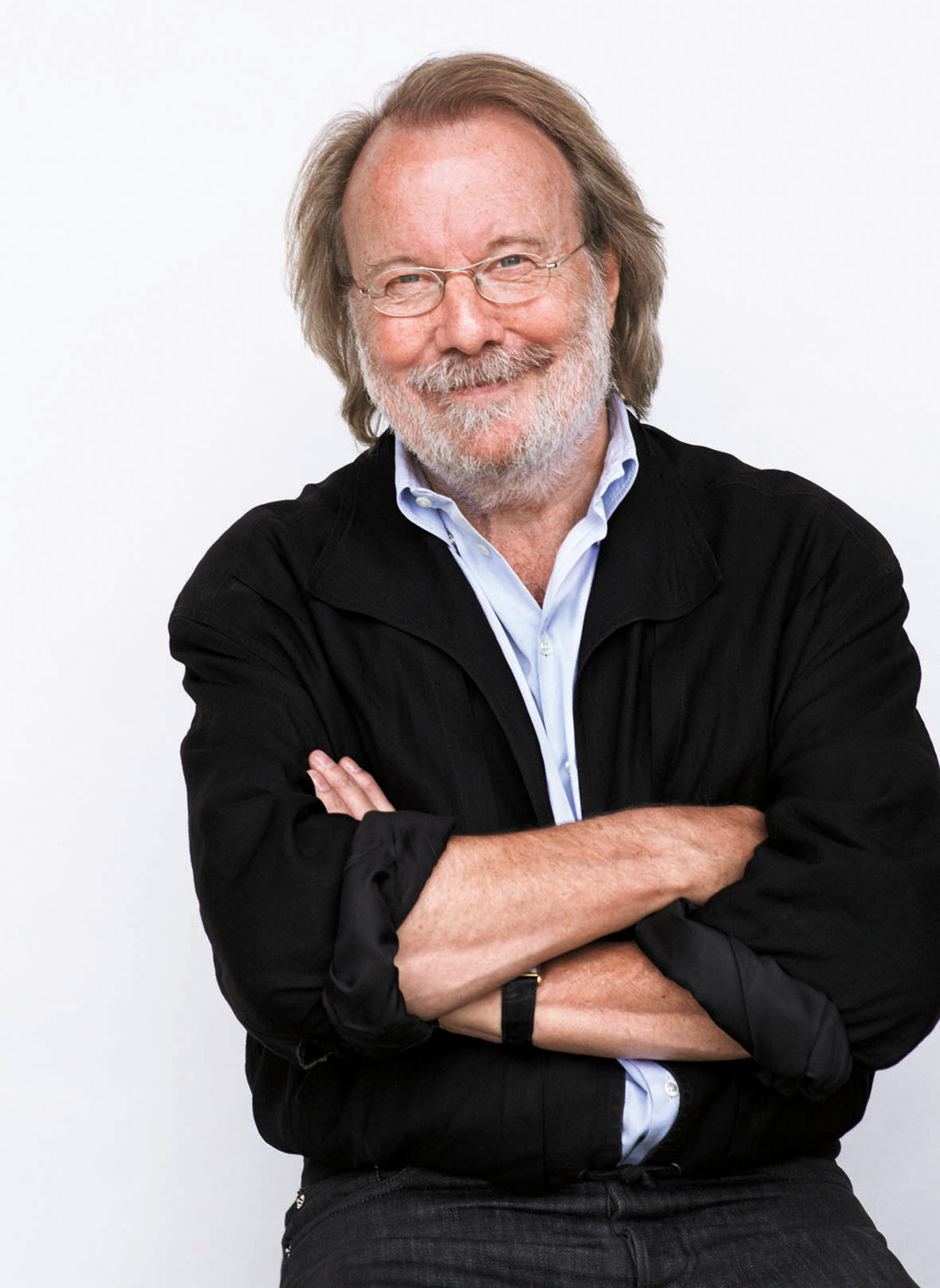 Benny Andersson of ABBA.